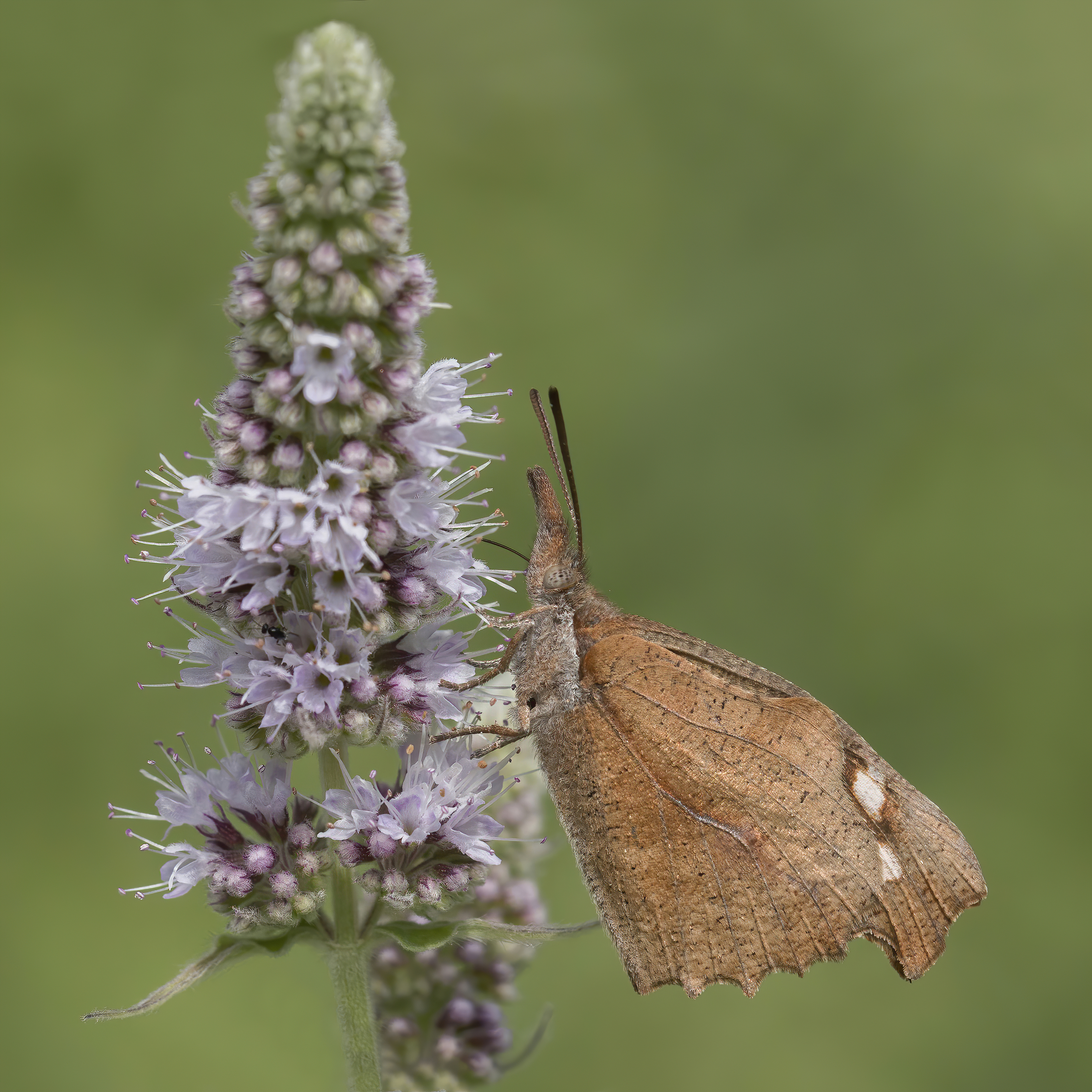 Nettle tree (Libythea celtis), Bulgaria, on mint